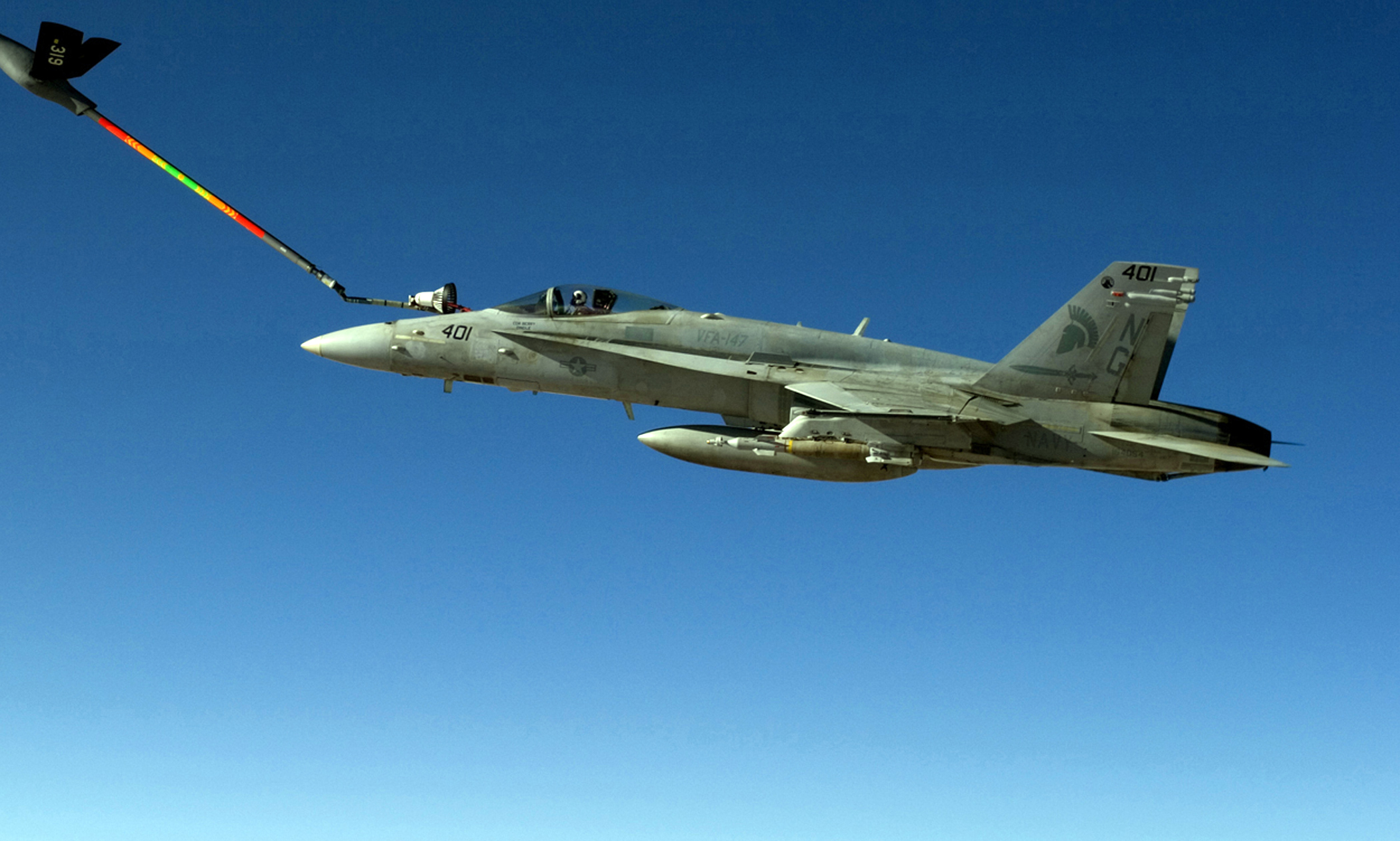 Iraq (May 16, 2005) - An F/A-18C Hornet, assigned to the "Argonauts" of Strike Fighter Squadron 147 (VFA-147), receives fuel from the refueling boom of a U.S. Air Force KC-135R Stratotanker from the 319th Air Refueling Wing during a combat mission flown from the Nimitz-class aircraft carrier USS Carl Vinson (CVN-70). The Carl Vinson Carrier Strike Group was conducting operations in support of multi-national forces in Iraq and maritime security operations in the Persian Gulf. Carl Vinson ended its deployment with a homeport shift to Norfolk, Va., and will conduct a three-year refuel and complex overhaul.